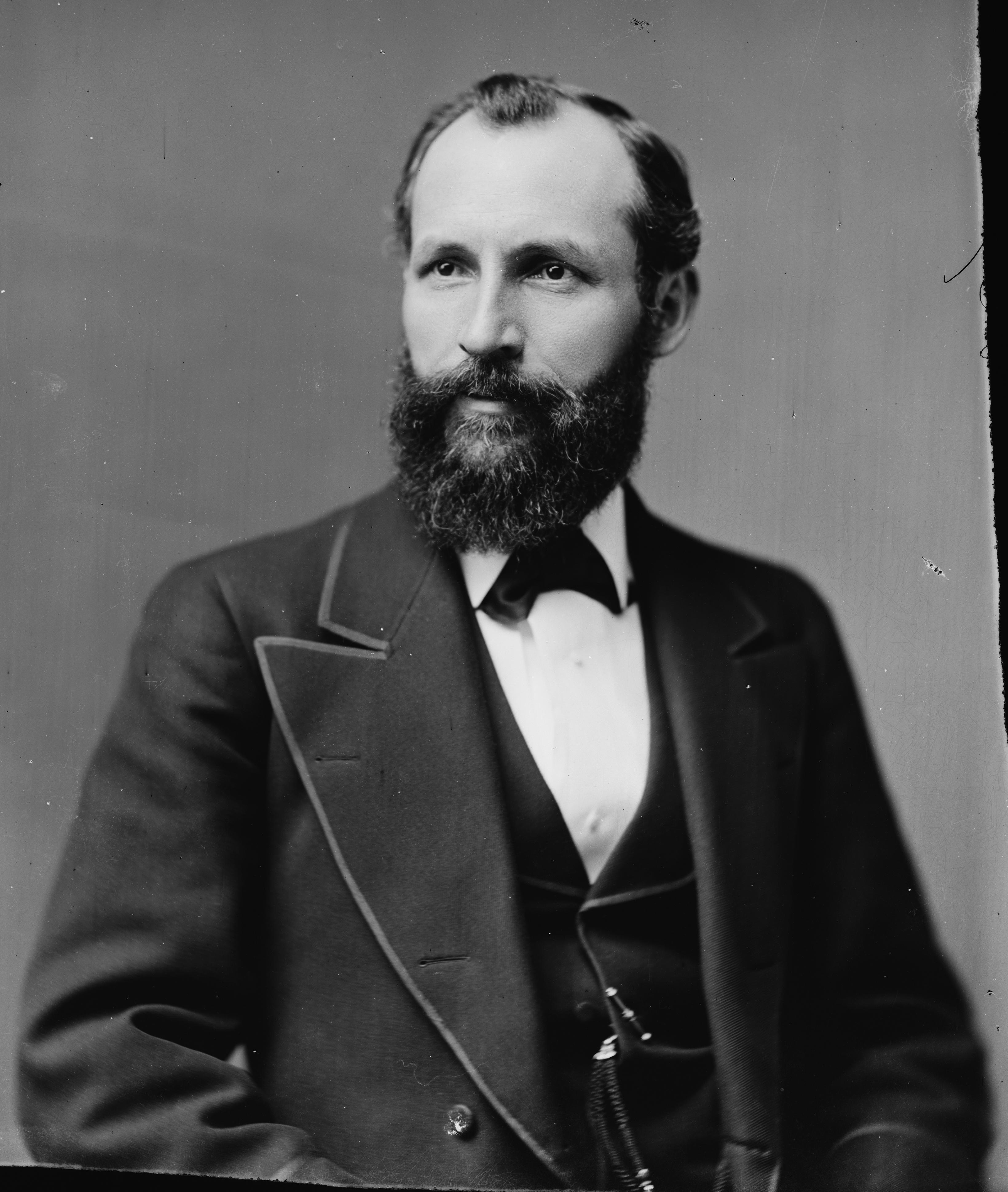 William McKendree Springer. Library of Congress description: "Hon. W.M. Springer of Ill."